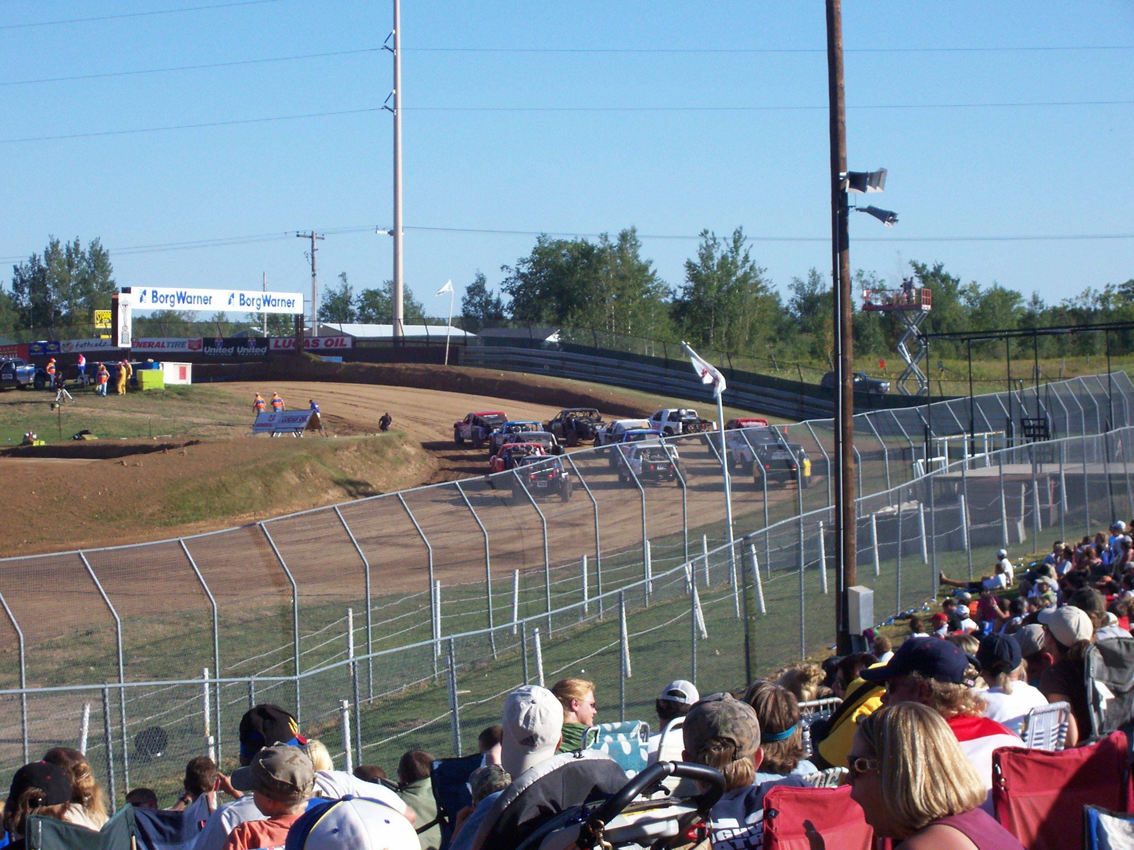 The Two-Wheel-Drive trucks lined up to start the 2008 Borg Warner world championship race at Crandon International Off-Road Raceway. They start a half lap ahead of the 4x4 trucks. Scott Taylor from this group won the race, only the second time a 2WD truck won.